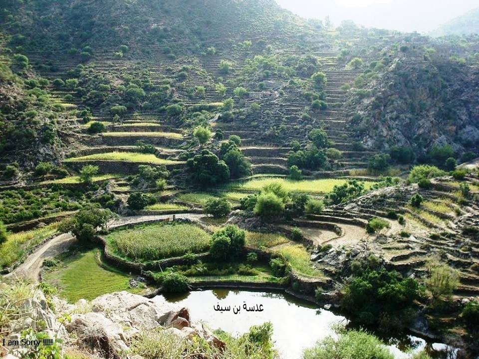 وادي قفيل